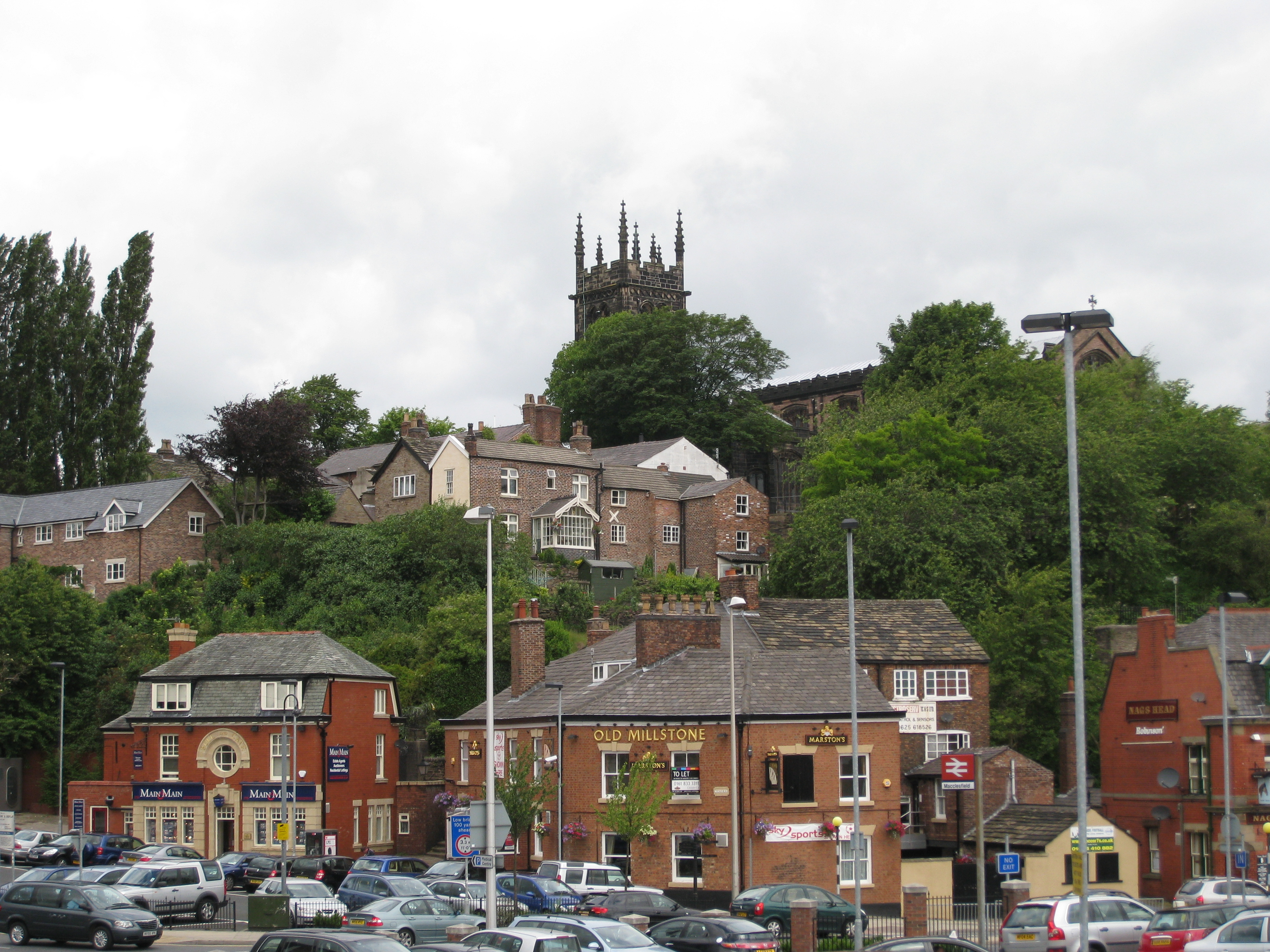 On Monday, June 30, Dag Rune and I took a morning train from Manchester Piccadilly Railway Station to Macclesfield. The ride took about 40 minutes. This was my first view of the old "silk town".